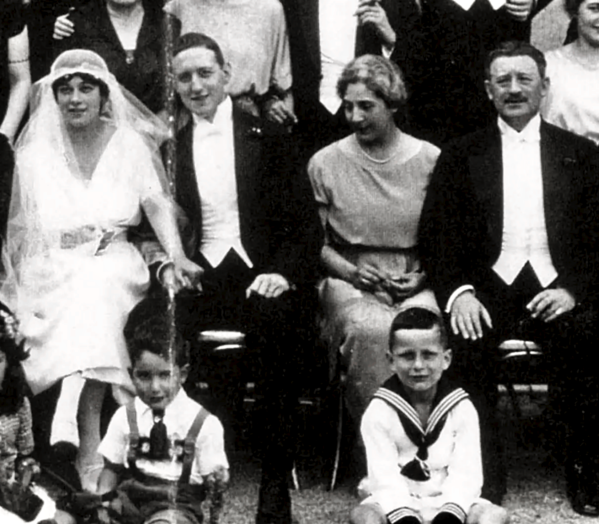 From the left: Hertha Mendel, née as such, her groom Bruno Mendel (1887–1959), the bridal mother Antonie "Toni" Mendel, née Meyer († 1956), and the bride's father Albert Mendel (1866–1922) on the day of marriage. Hertha Mendel was a first degree cousin of her husband Bruno. Her father Albert Mendel was a wealthy merchant who was co-owner of a Berlin-based clothes department store named Fischbein & Mendel.